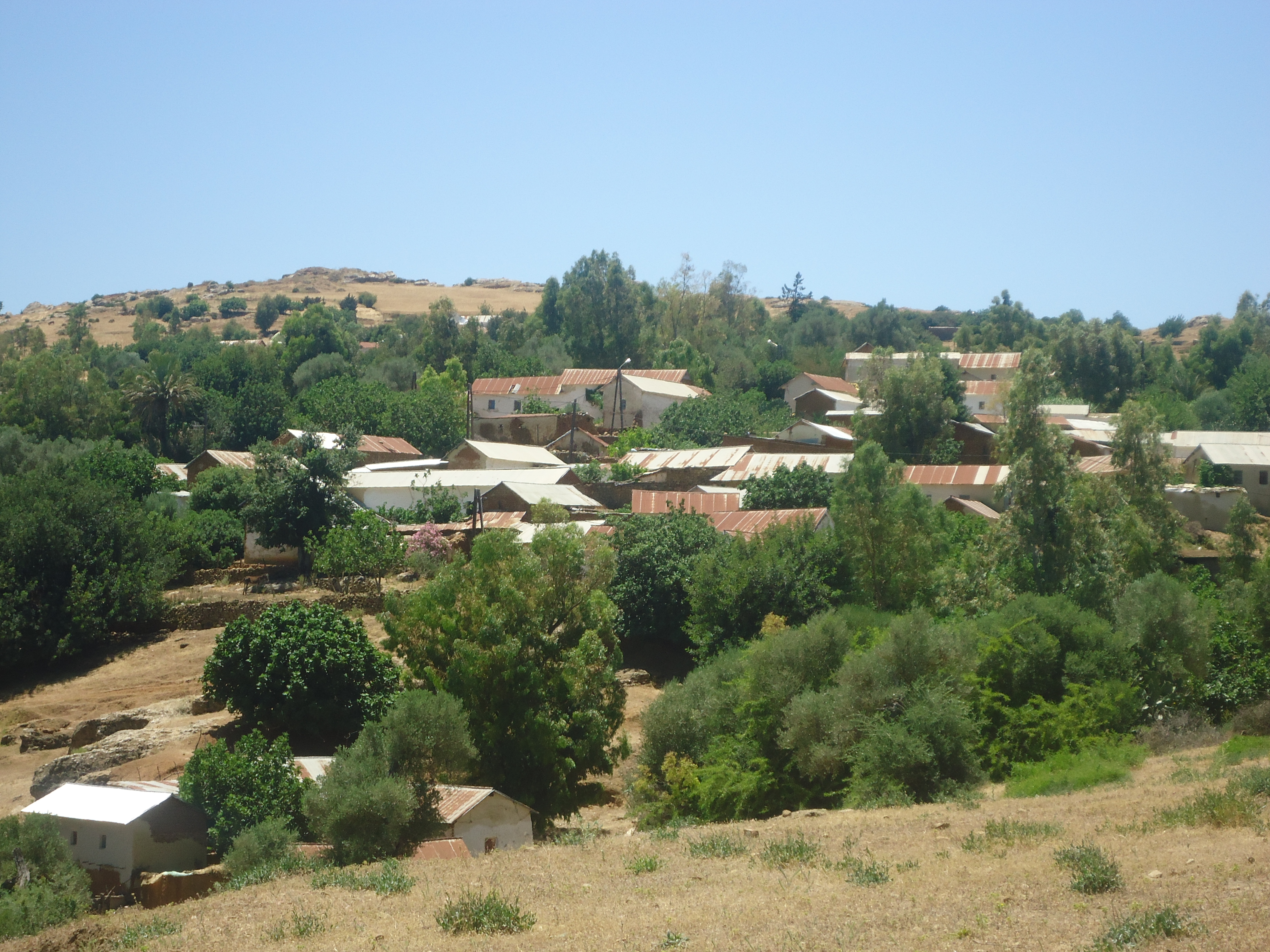 a picture of Taourda